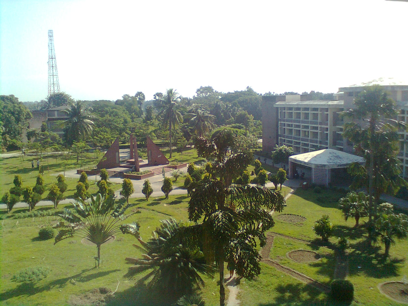 Dinajpur